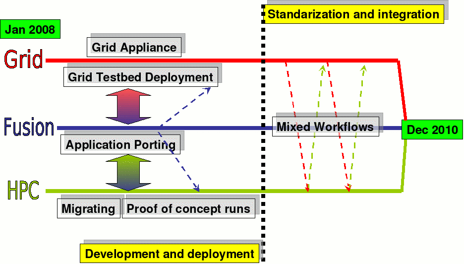 Road map for euforia project